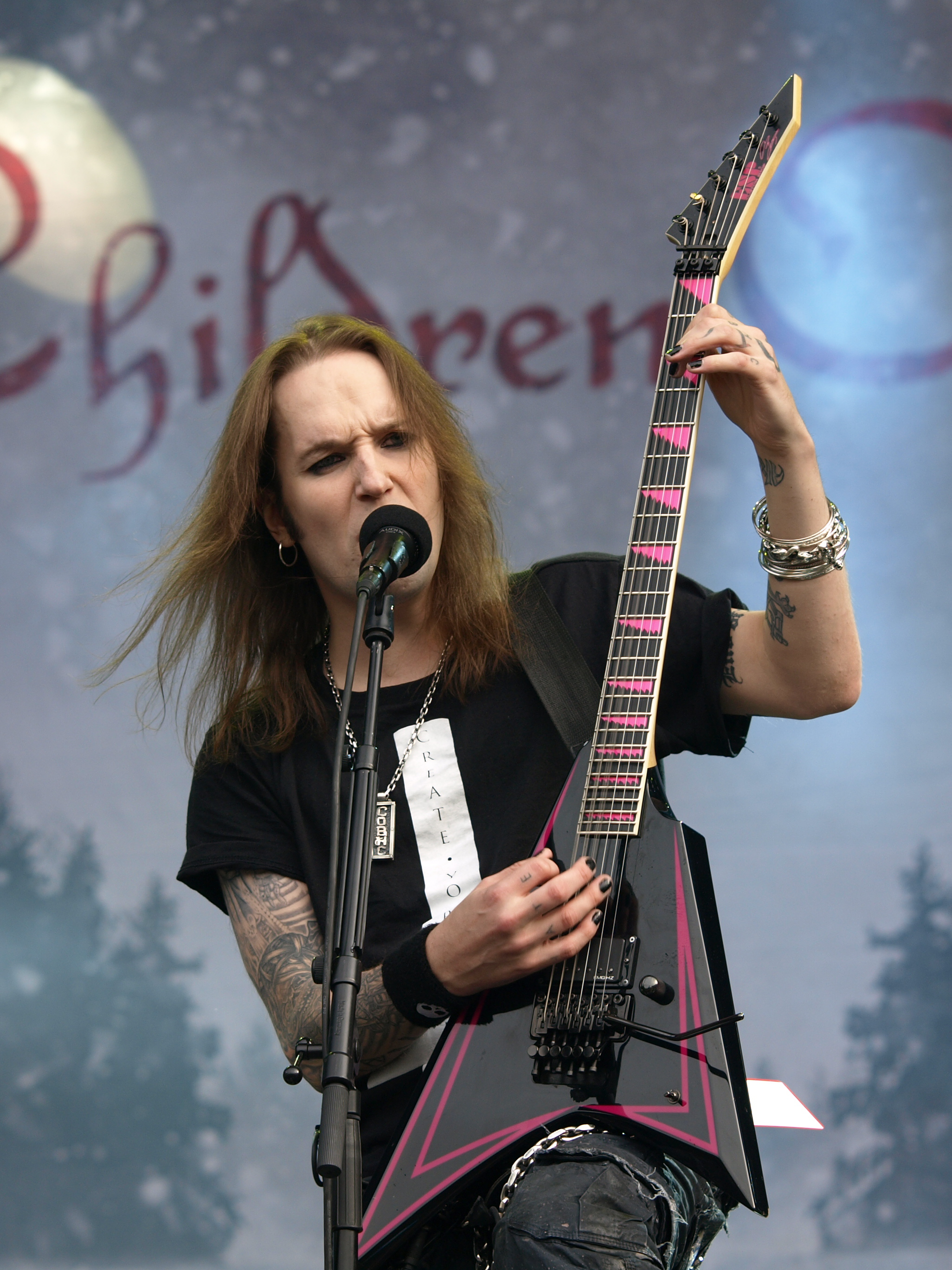 Finnish band Children of Bodom live at Provinssirock 2013